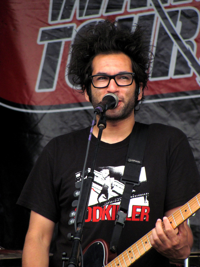 Justin Pierre of Motion City Soundtrack performing at Warped Tour on July 3, 2010